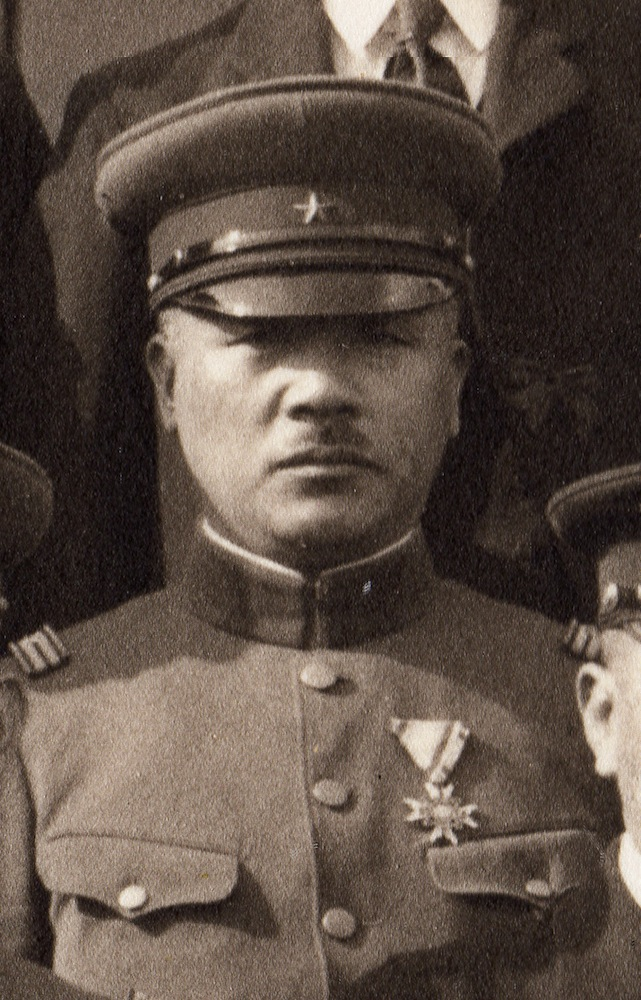 Major General Moichirou Yamamoto